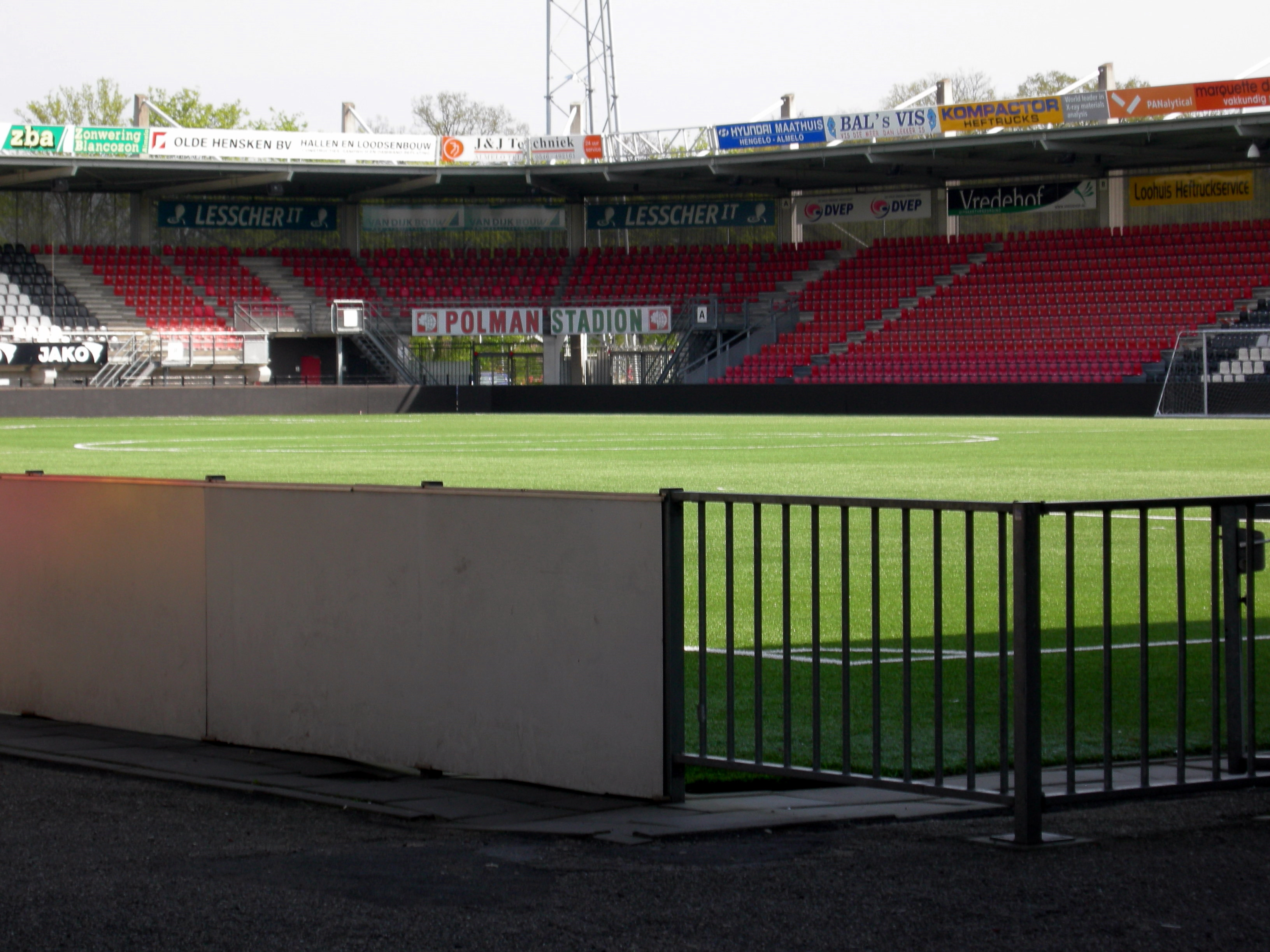 A inside view of the Polman Stadion, Almelo, Netherlands